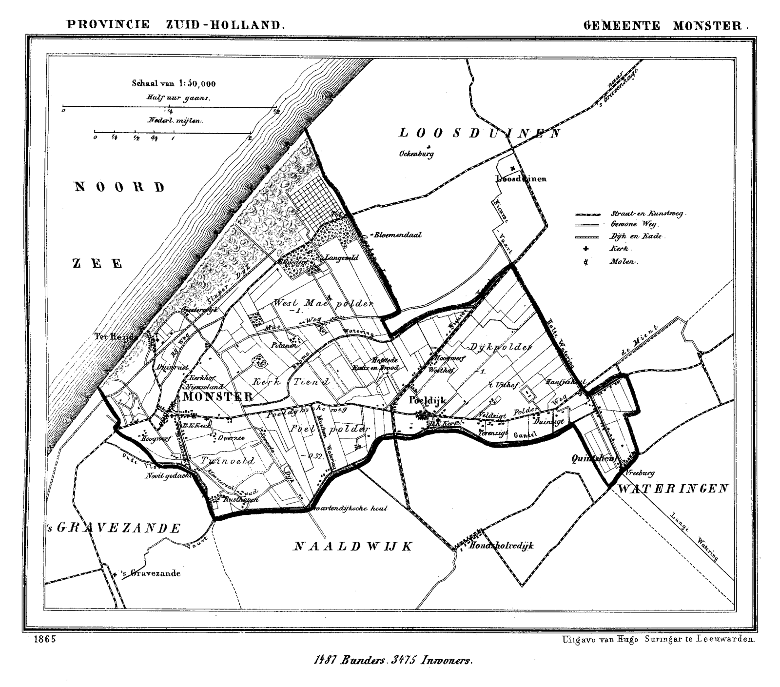 A map of the town Monster, The Netherlands, 1866.